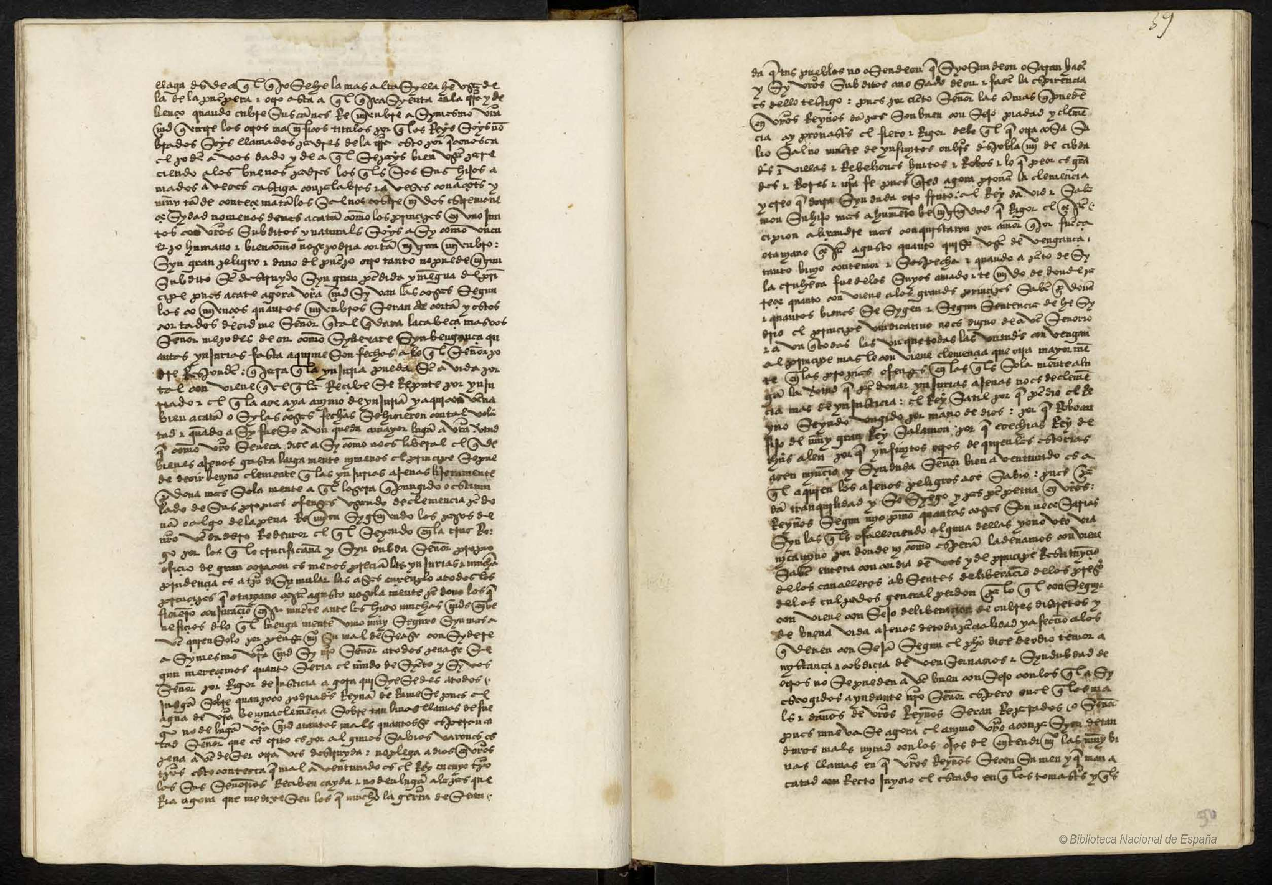 Ejemplo de las epístolas de Diego de Valera.